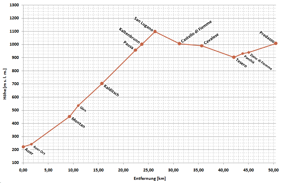 simplified altitude-profile of railway track Auer–Predazzo